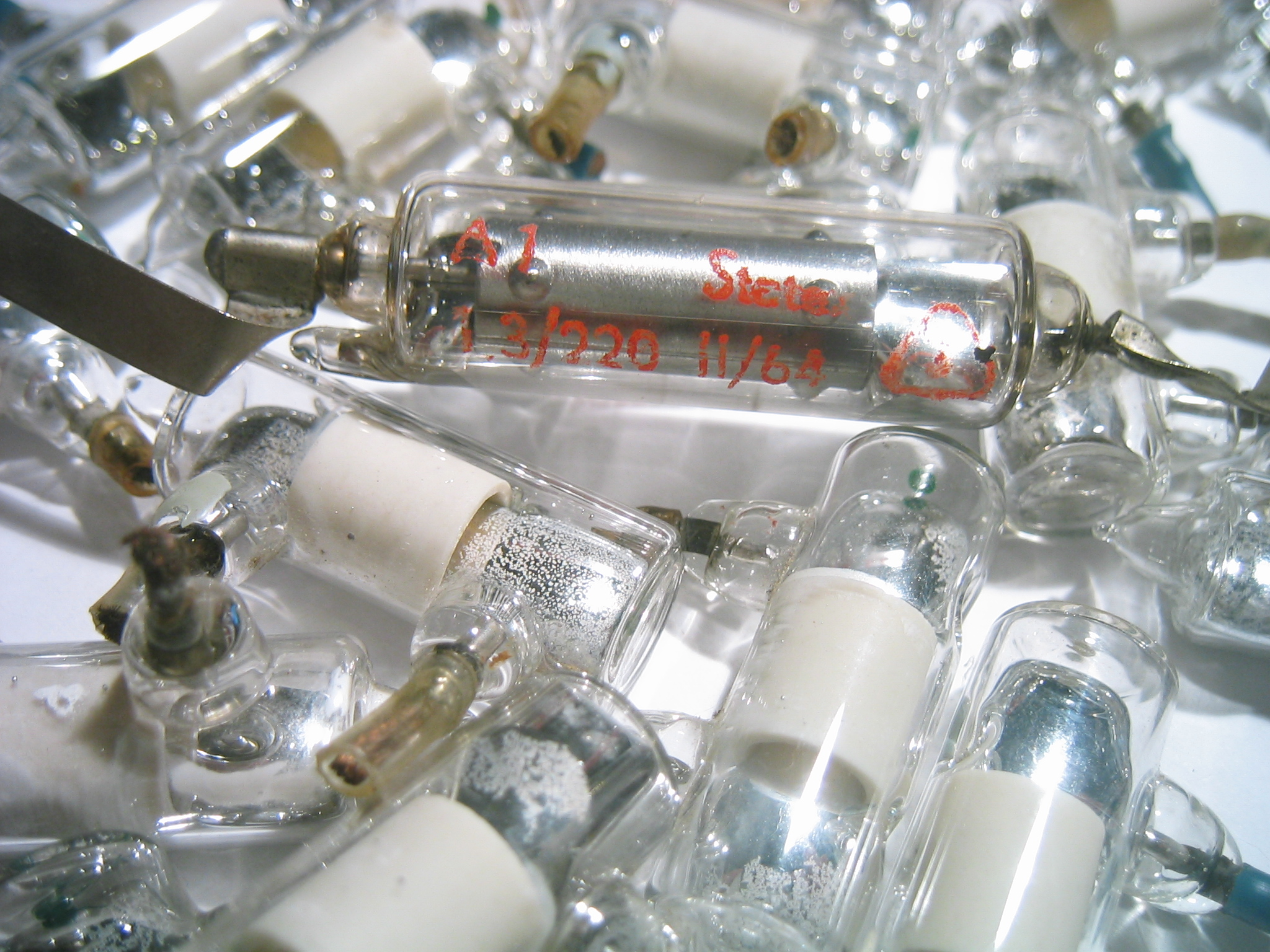 Old mercury switches